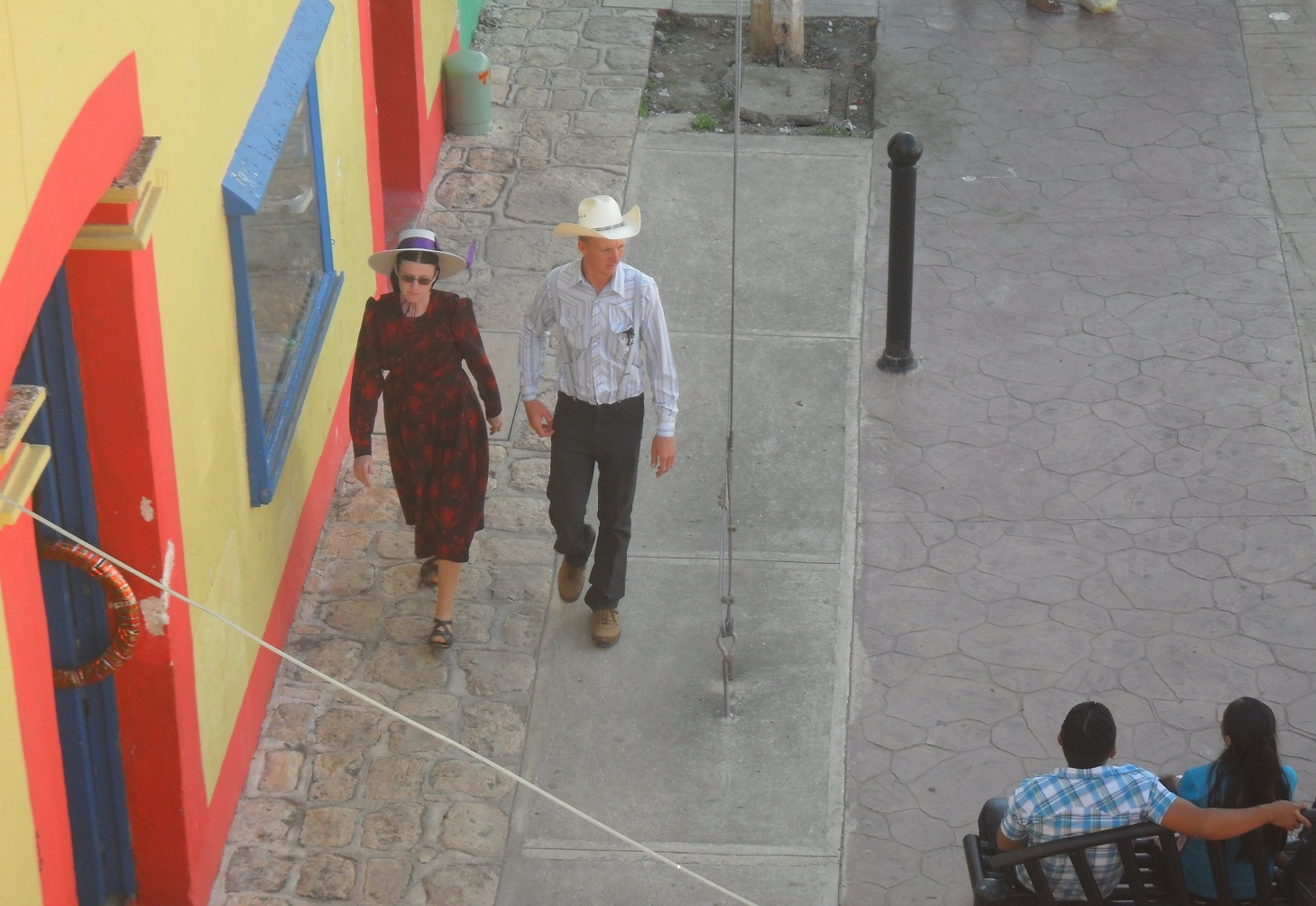 Mennonite couple in Campeche, Mexico